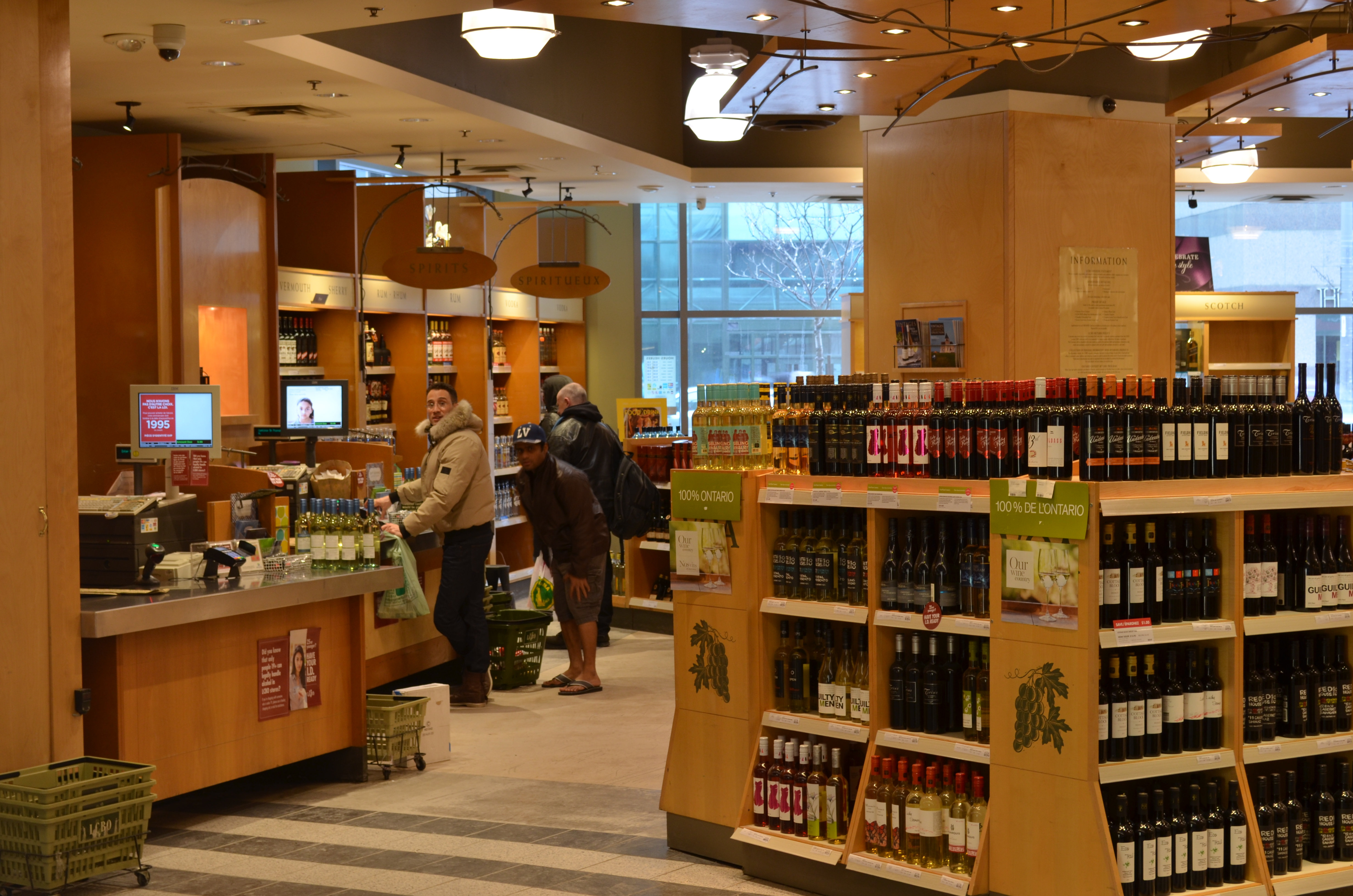 LCBO, 5095 Yonge Street